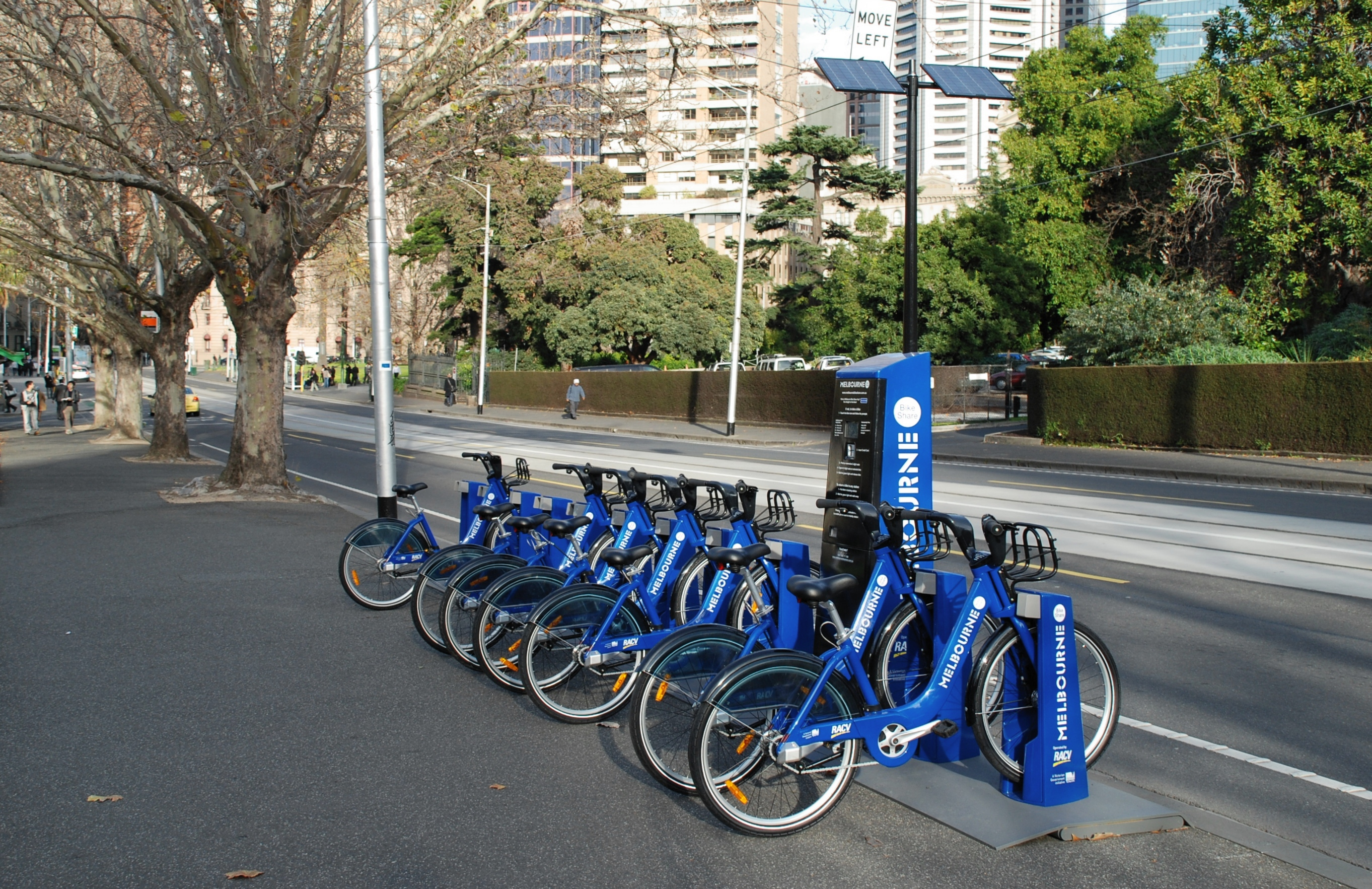 Melbourne Bike Share station on Macarthur Street, Melbourne